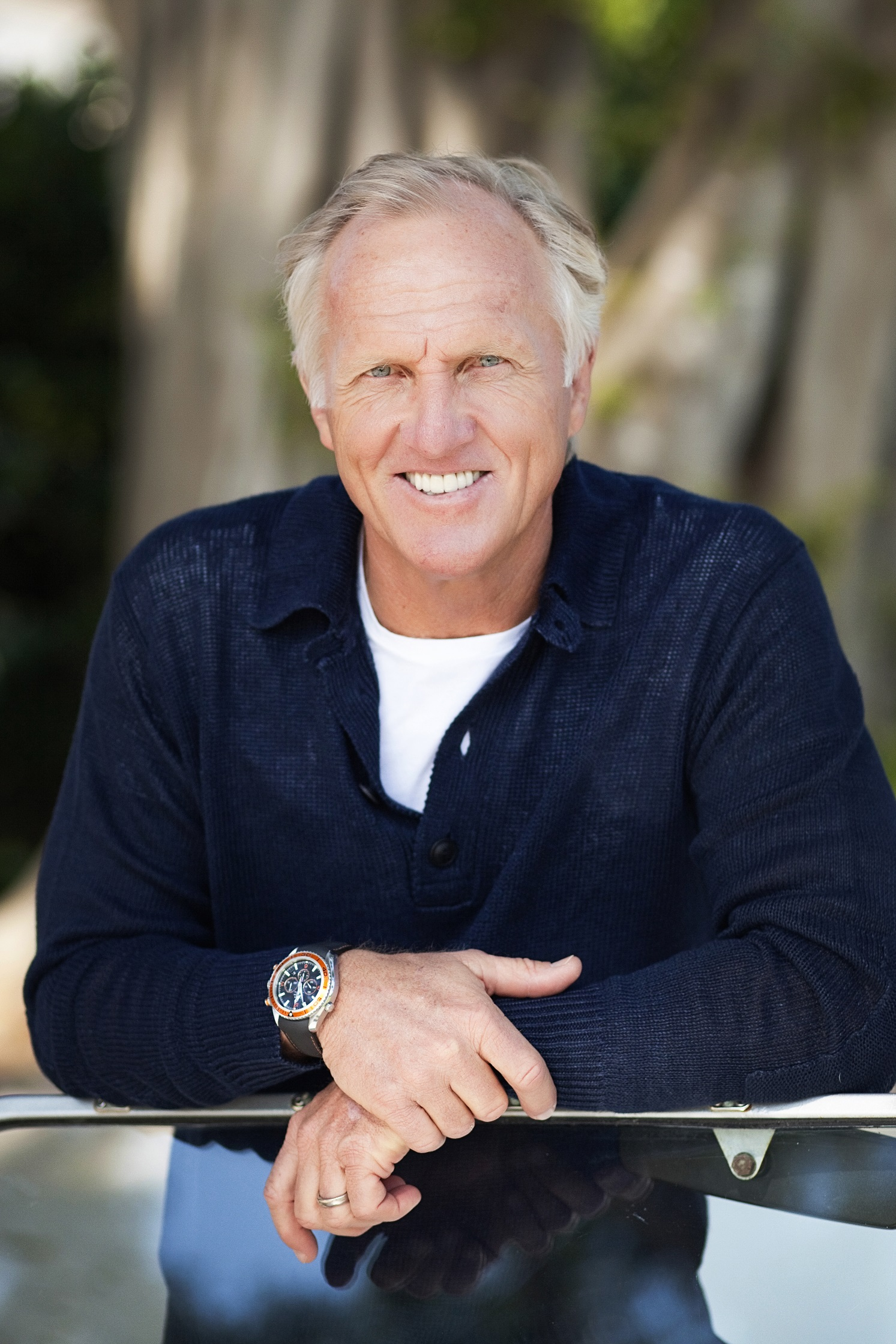 Greg Norman 2014